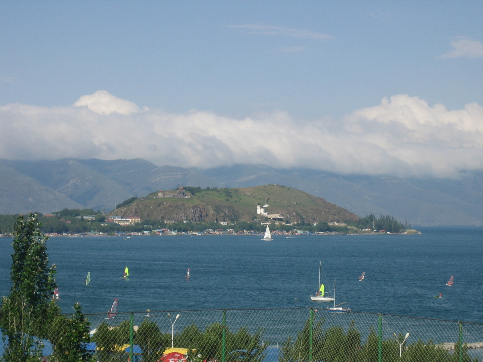 Sevan peninsula (formerly an island) in Lake Sevan in Armenia. Visible is the Armenian monastery of Sevanavank on the peninsula.